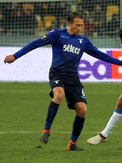 Lucas Leiva